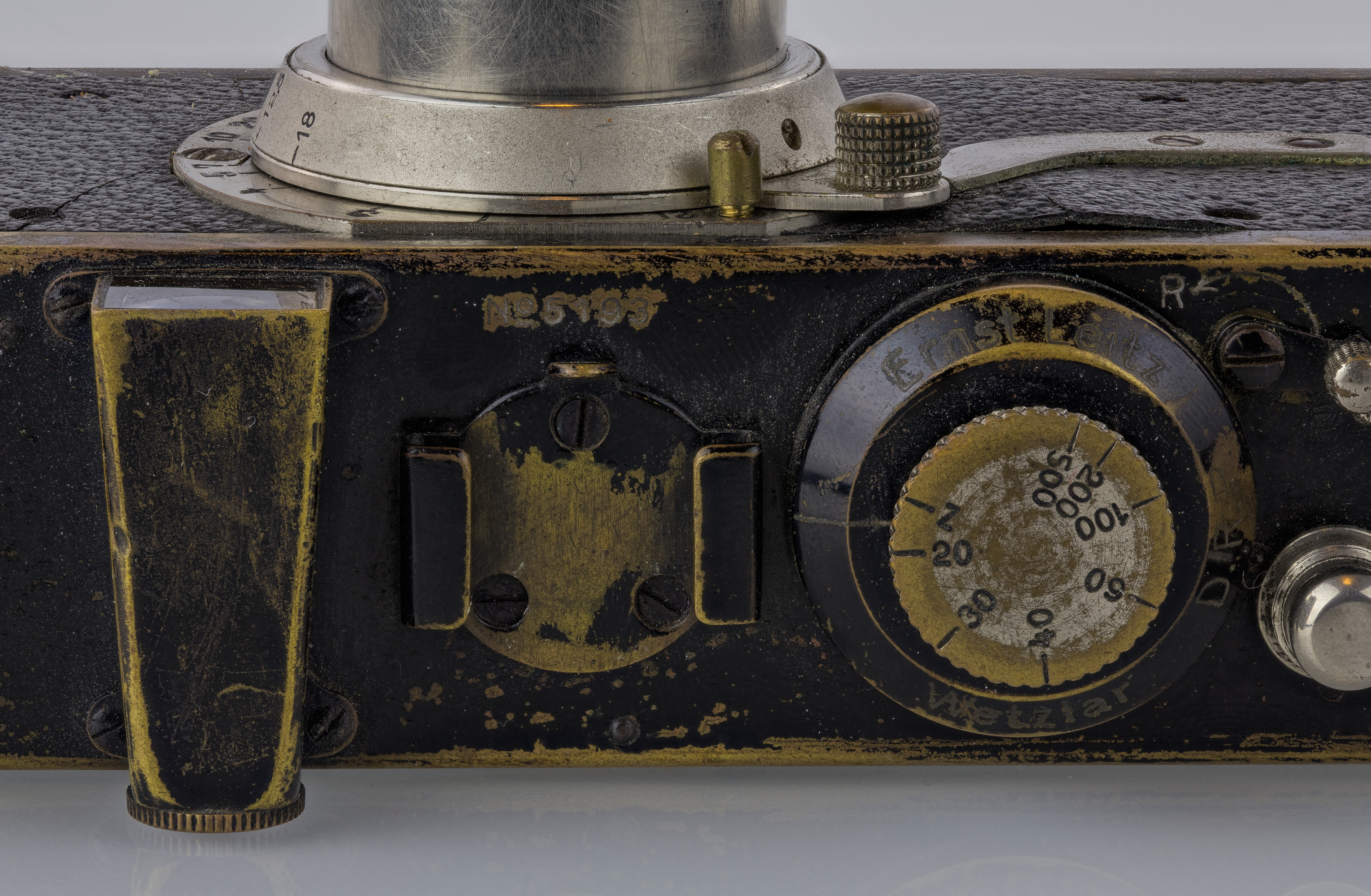 Leica Mod. Ia (1927), production number 5193, production time 1925-1936, Leitz Elmar F=50mm, 1:3.5